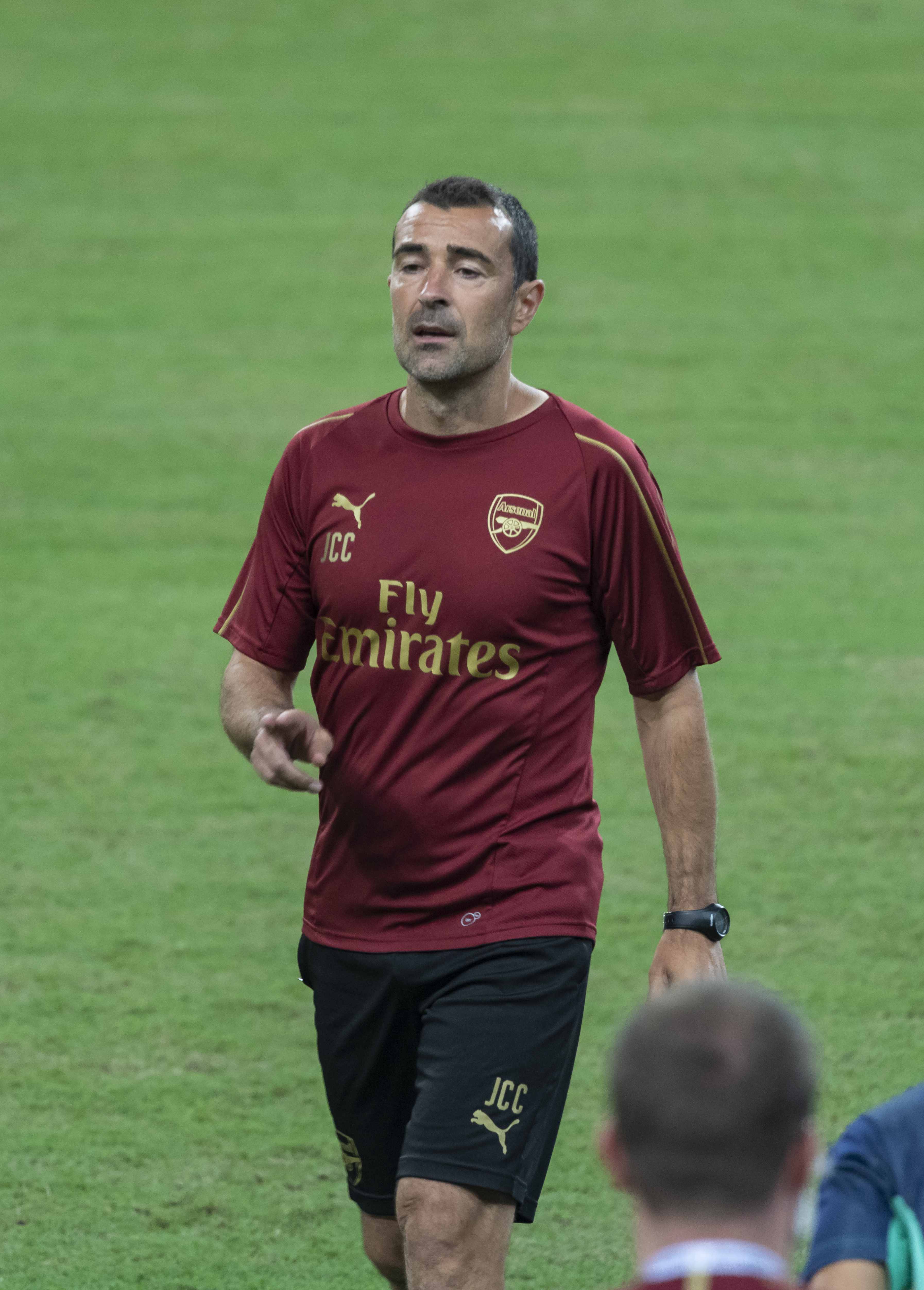 Juan Carlos Carcedo Arsenal v PSG Singapore National Stadium 2018 International Champions Cup